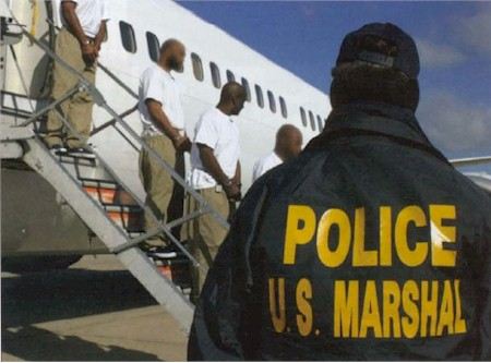 (Federal) Prisoners stepping down an aircraft during a prisoner's transport performed by the Prisoner and Alien Transportation System (JPATS).